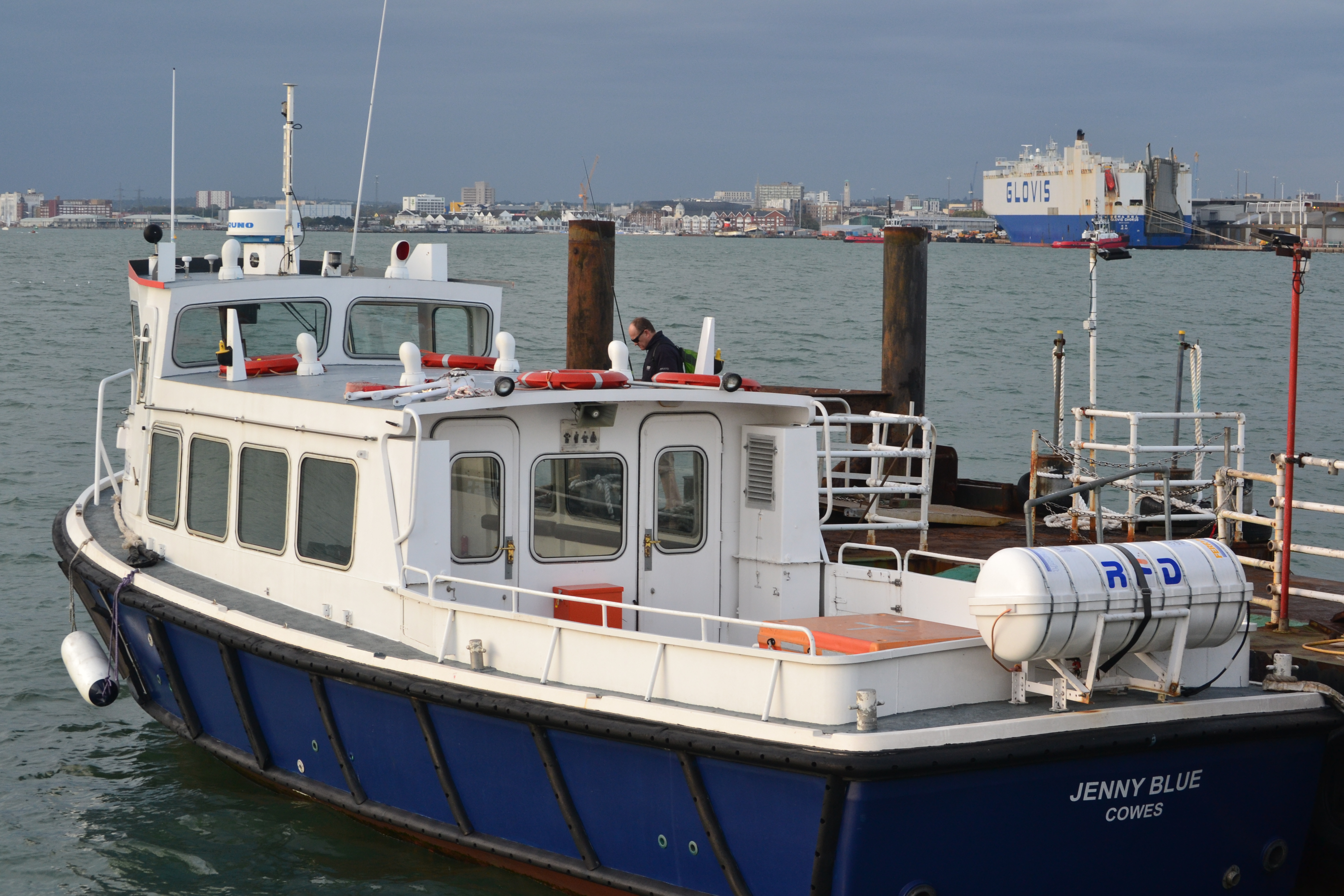 Jenny Blue moored at Hythe Pier